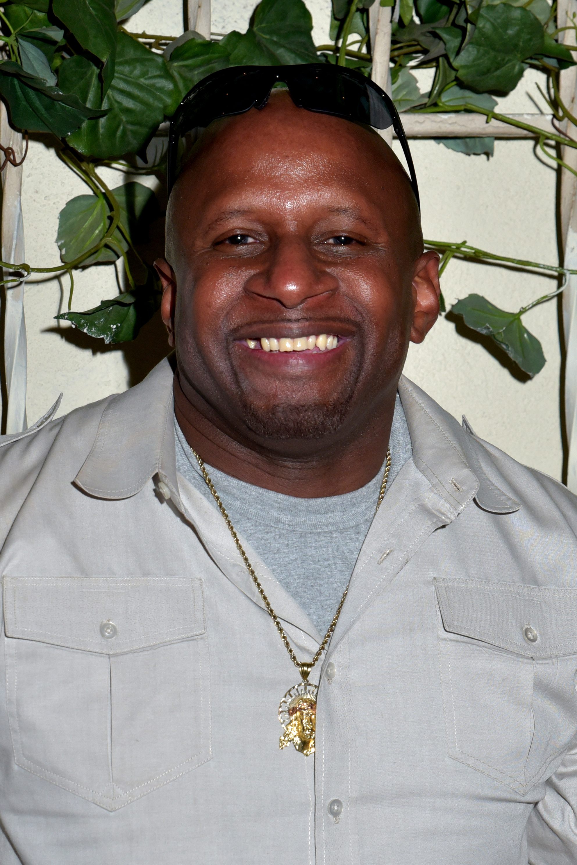 Prince Yashua attends the 35th Annual XRCO Awards Show on June 27, 2019 at Boardners in Hollywood, California. (Photo by Glenn Francis/Pacific Pro Digital Photography)